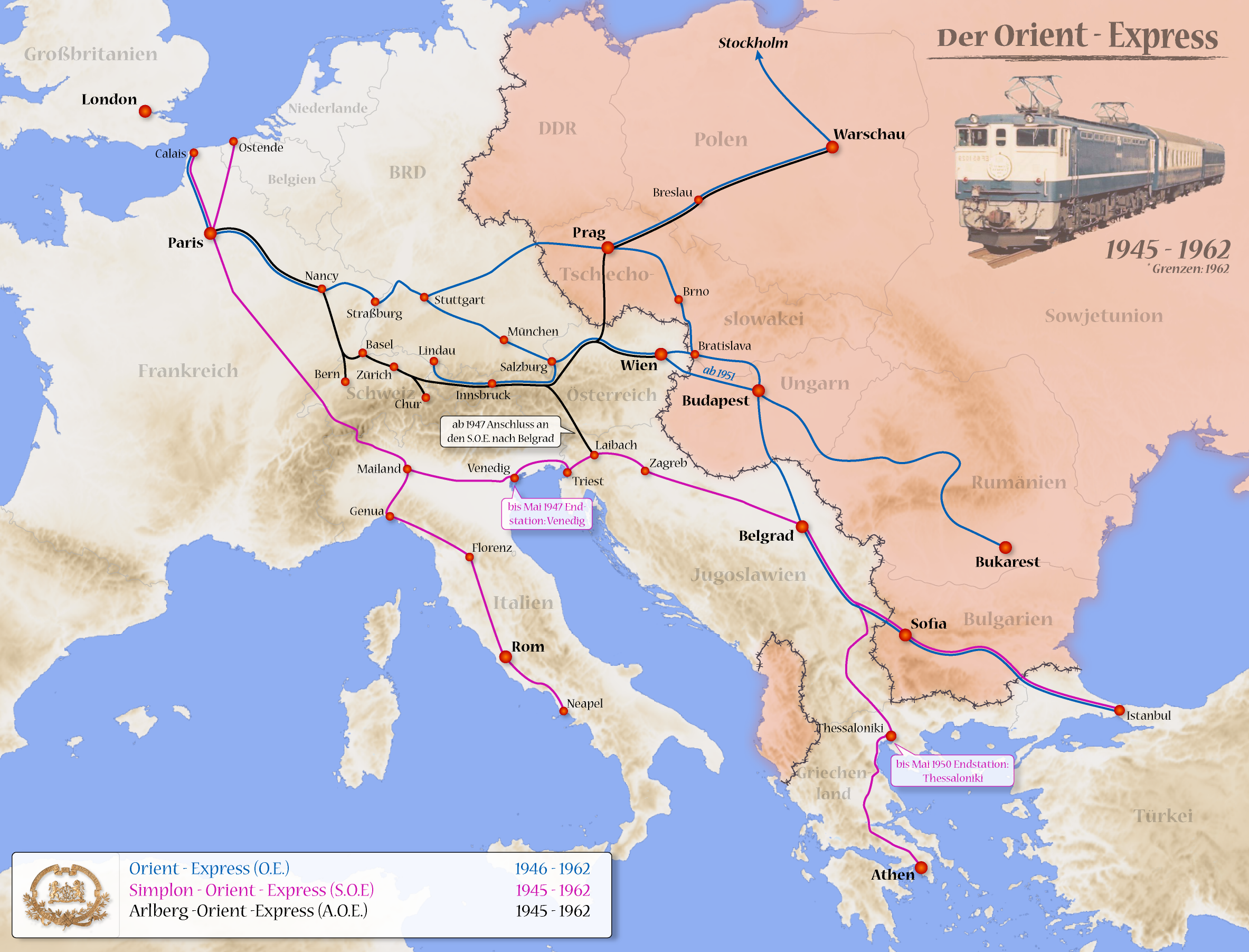 Route of the Orient Express from 1945 to 1962